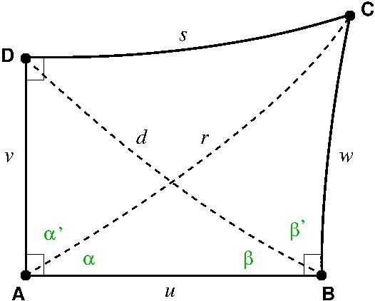 Lambert quadrilateral with sides, diagonals and angles.